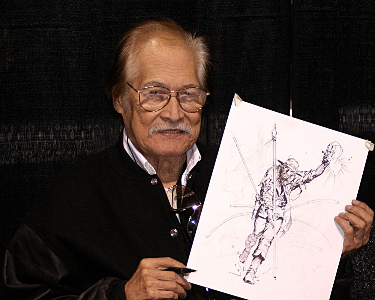 Tony DeZuniga, born 1941, is a Filipino-born comic-book artist best known for his work with DC Comics, where he co-created the characters Jonah Hex and Black Orchid. Photo was taken at the Calgary Comic & Entertainment Expo (BMO Centre, Calgary, Alberta, Canada).